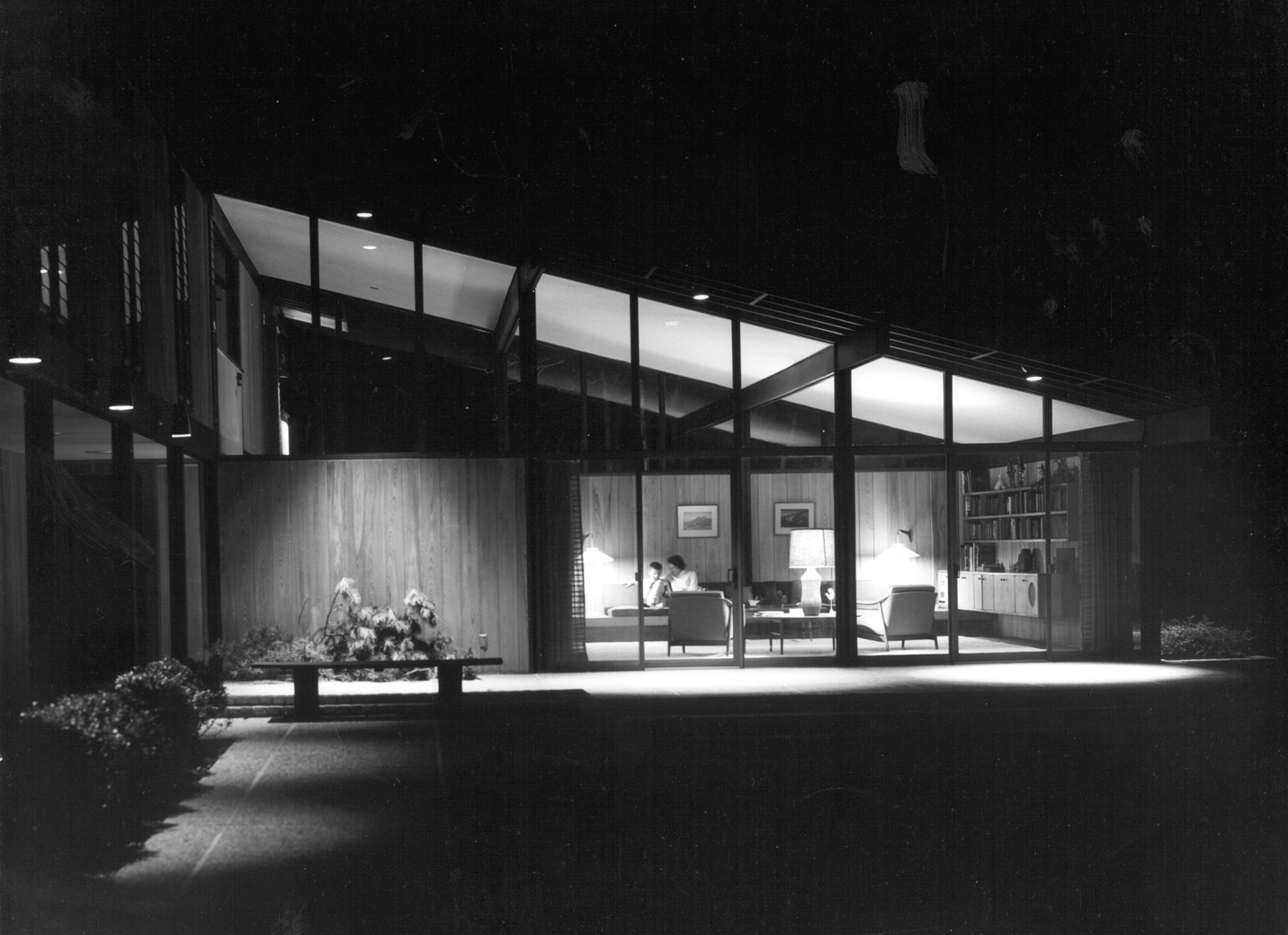 Home in Gatlinburg Tennessee